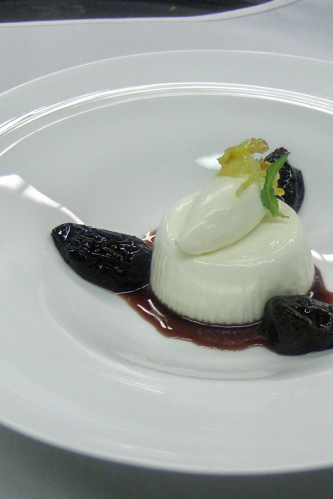 Panna Cotta with prunes in a port sauce